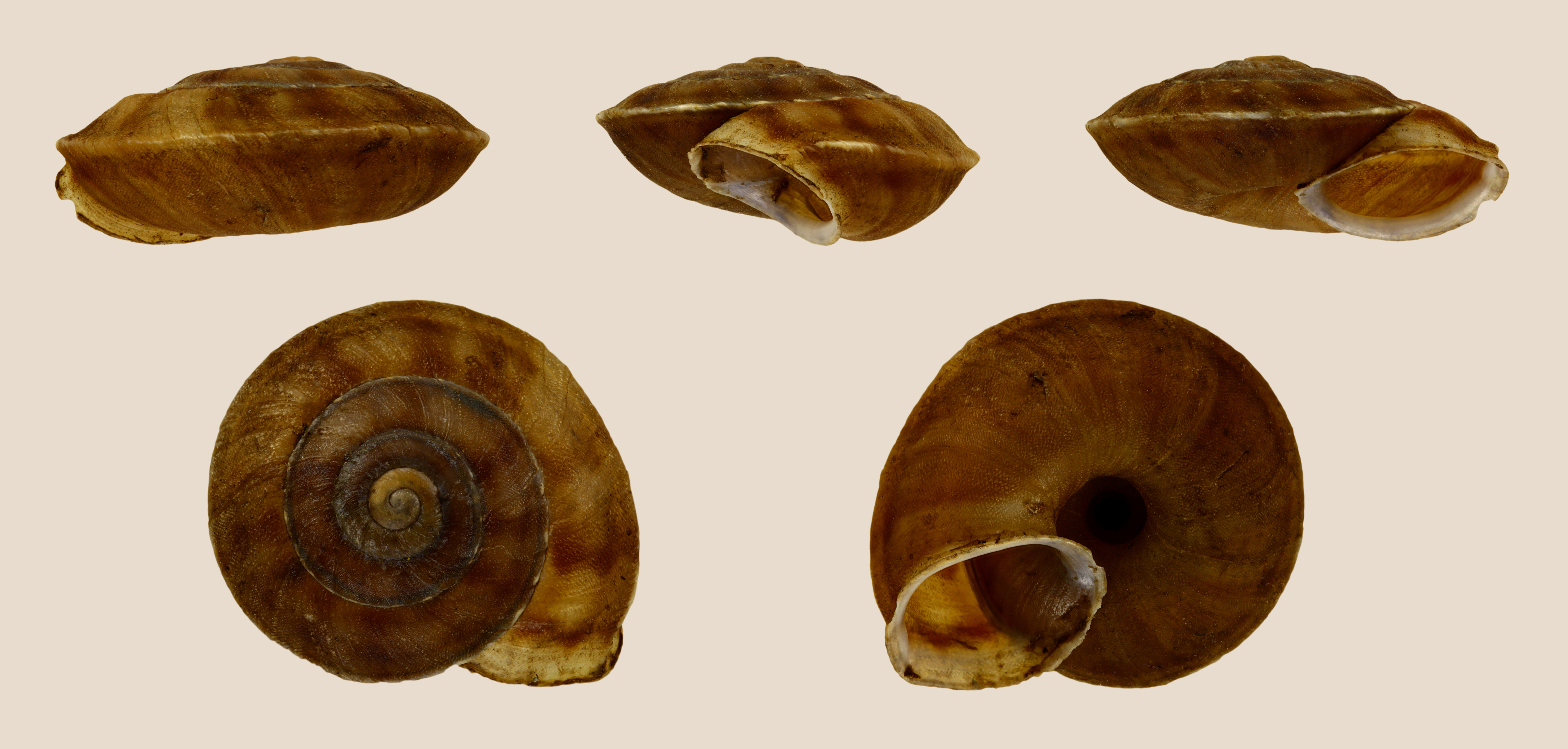 Stone-loving Arianta; Diameter 1.6 cm; Originating from a limestone rock, Stühlingen-Grimmelshofen, Baden-Württemberg, Germany 47°47′11.47″N 8°30′7.21″E / 47.7865194°N 8.5020028°E; Shell of own collection, therefore not geocoded.